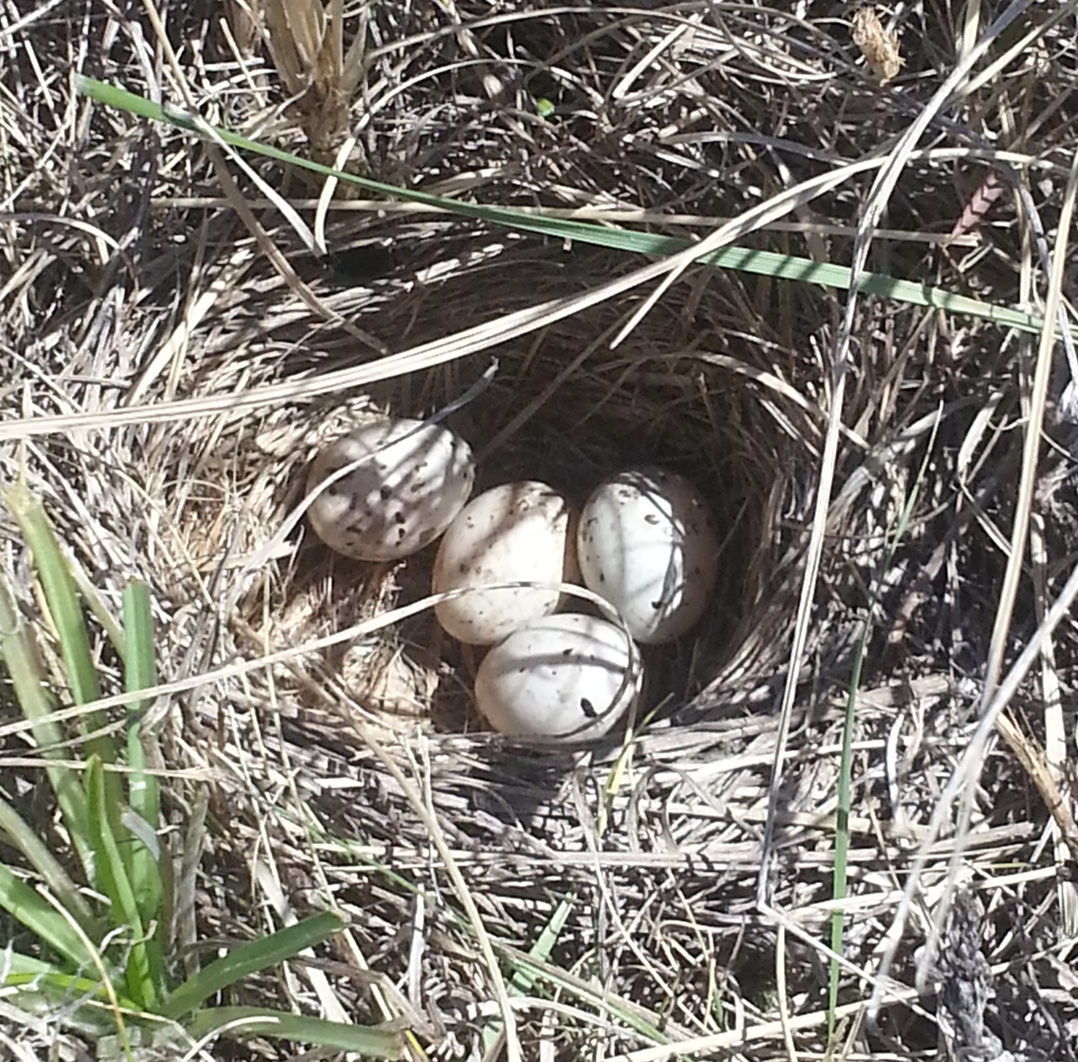 Chestnut-collared Longspur, Calcarius ornatus, eggs in open nest. Chestnut-collared Longspurs nest on the ground in grasslands. NOTE: This nest was photographed as part of a nest monitoring project in the oil fields of Alberta, Canada by a professional trained in viewing sensitive nests and minimizing the disturbance to the birds and the surrounding vegetation. Photographing nests simply to "snap a cute pic" can expose them to predators and disrupt the feeding and care of nestlings!